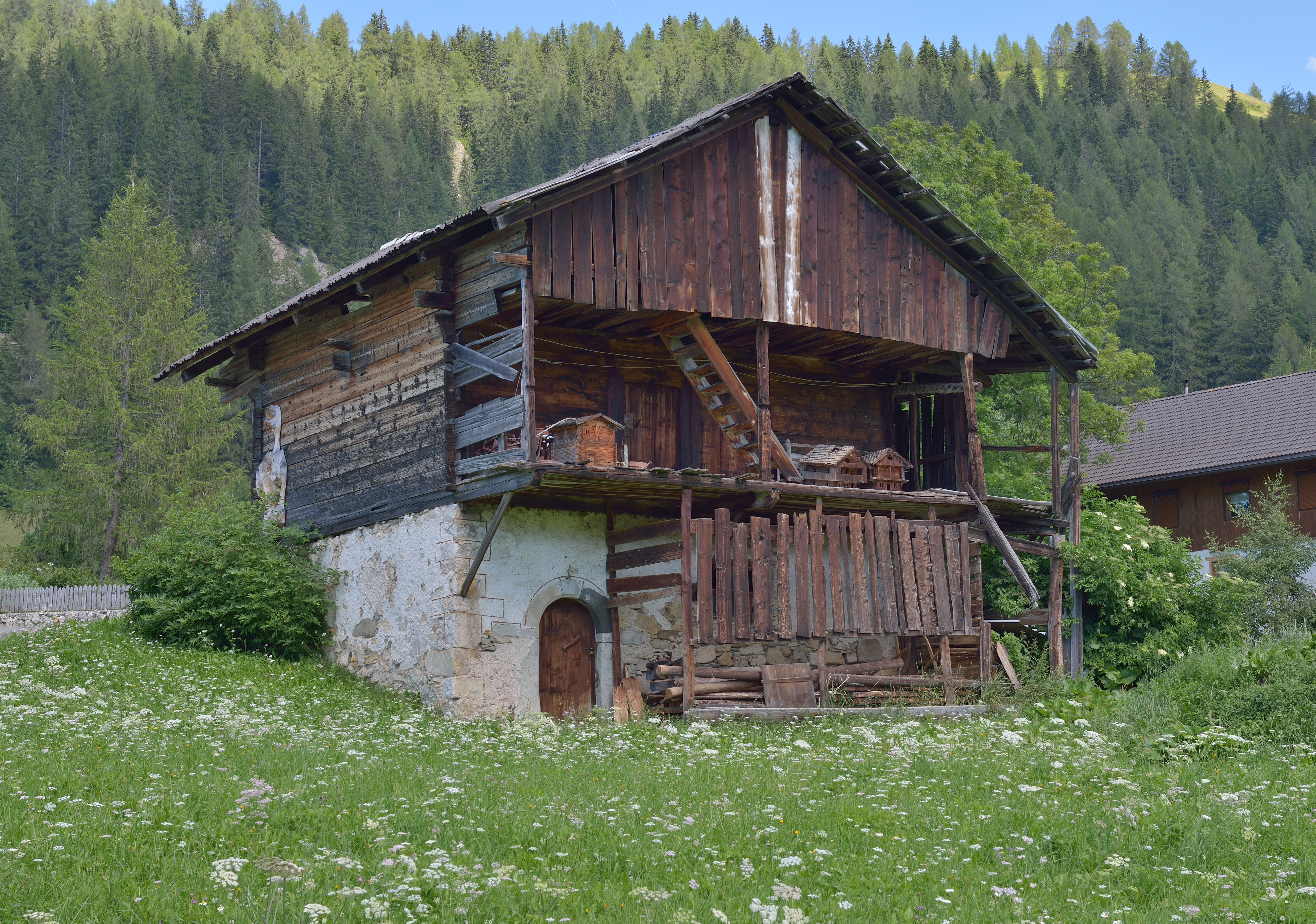 Barn in Valgiarei Badia